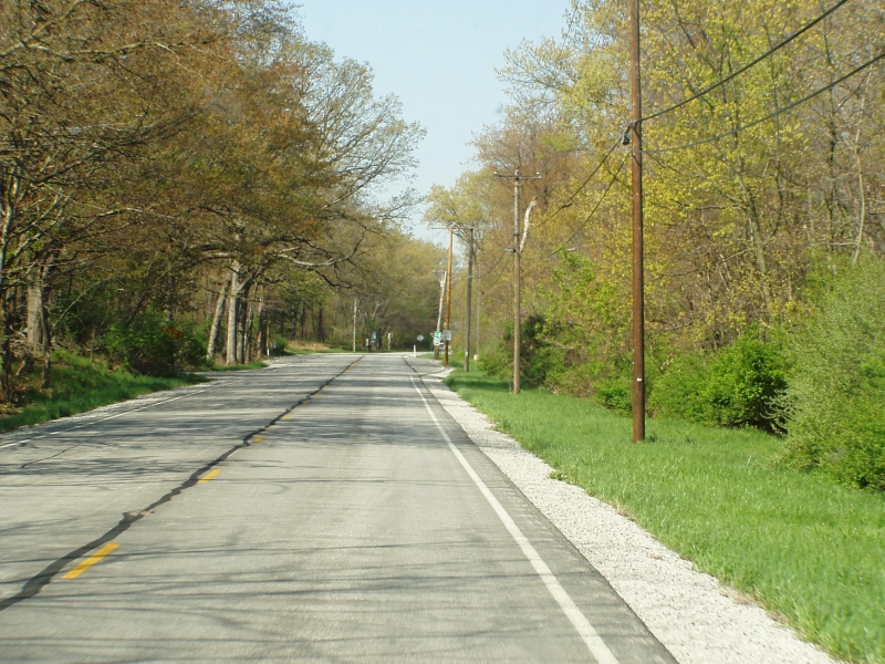 U.S. 12 (Dunes Highway), west bound in Dune Park section